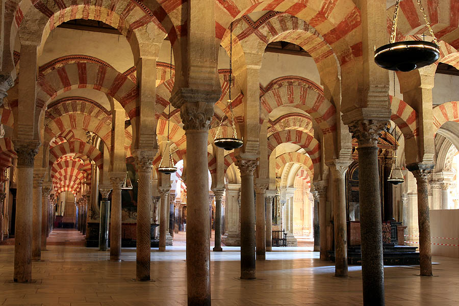 The arches of red-and-white stripes inside the "La Mezquita" in Cordoba, Spain represent some of the pinnacles of the Moorish architectures.